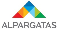 Logo of Alpargatas, one of the largest textile manufacturers in Latin America.